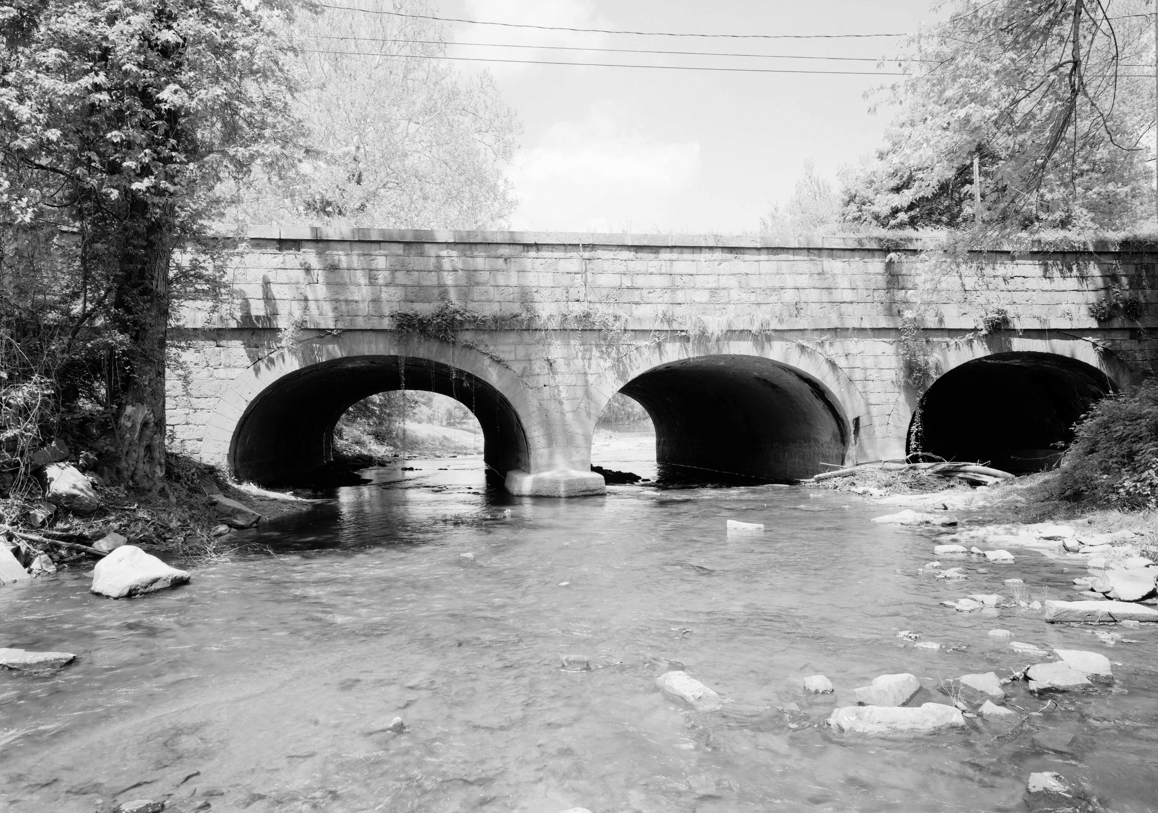 Aqueduct No. 3 on the Wiconisco Canal in Dauphin County, Pennsylvania, in the United States. Library of Congress (LOC) call number is "HAER PA,22-HAFX.V,1"; the LOC title is "Wiconisco Canal Aqueduct No. 3, Spanning Powell Creek at State Route 147, Halifax vicinity, Dauphin County, PA"